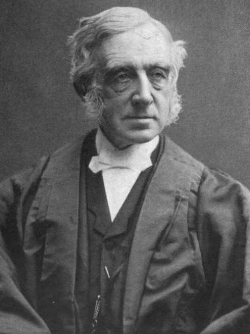 Image of Theodore L. Cuyler, a Presbyterian church leader.